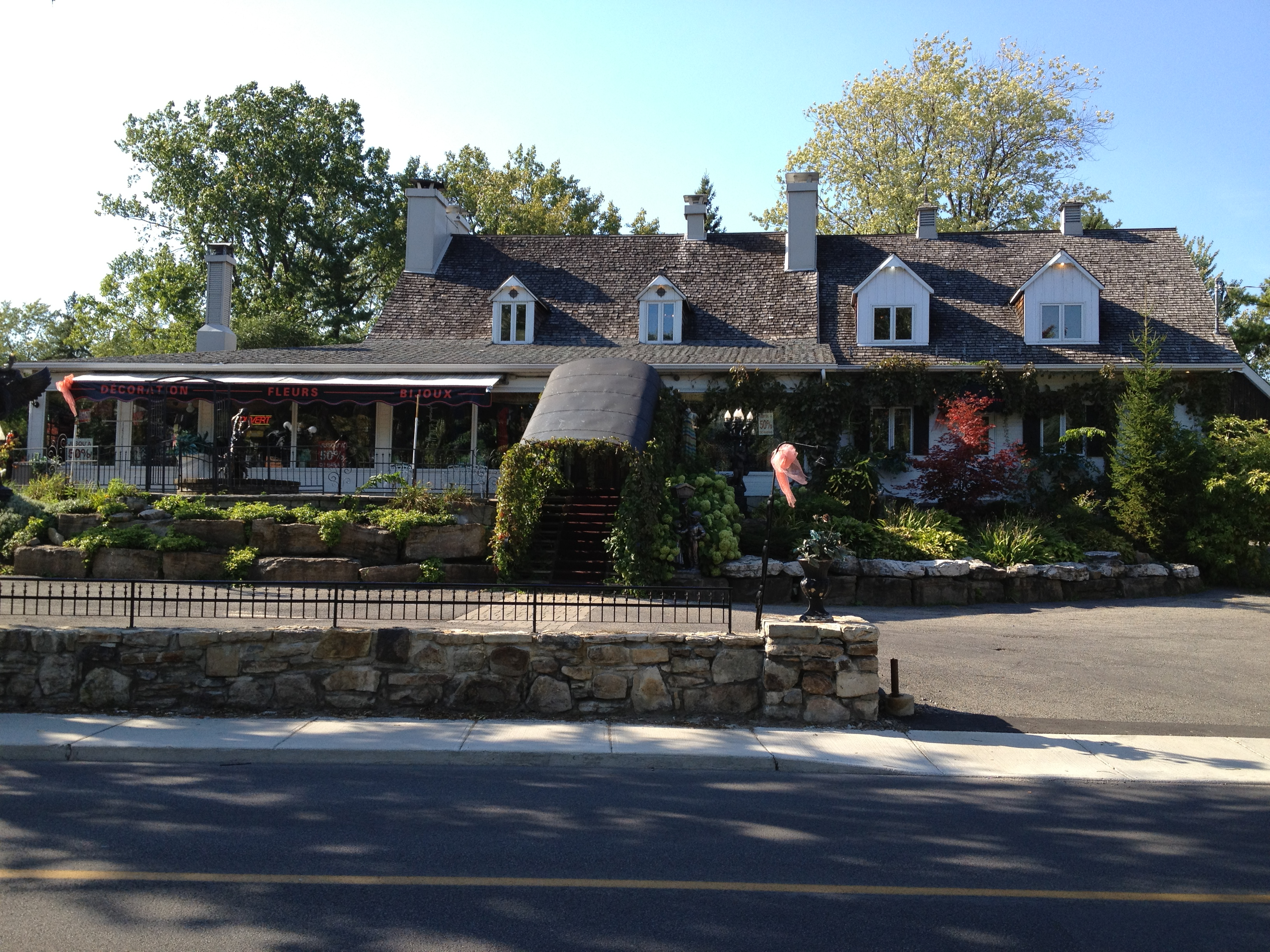 Maison Twin Chimney